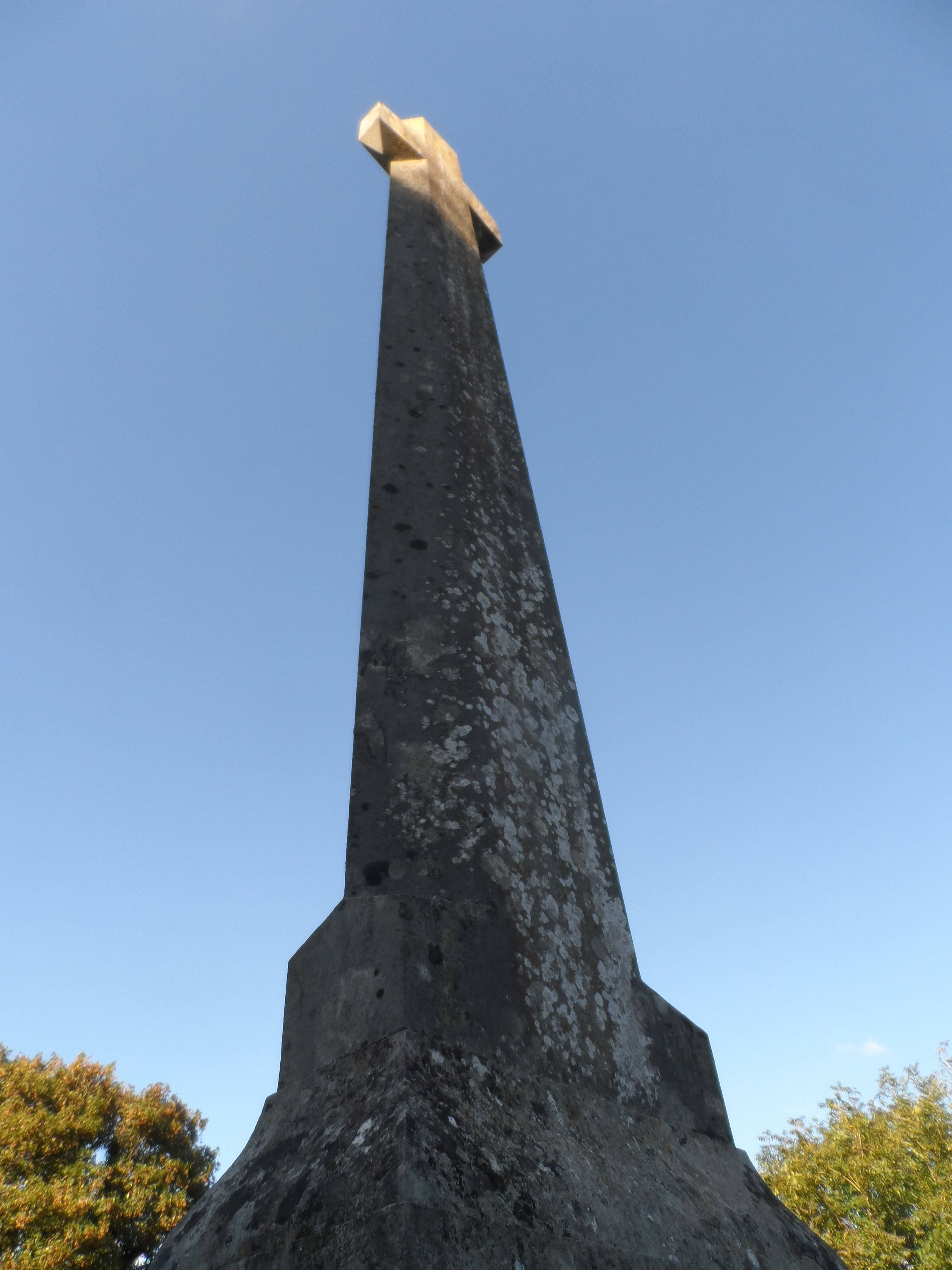 Busbridge War Memorial at St John the Baptist's church, Busbridge. Unveiled in 1922 to a design by Edwin Lutyens (1869-1944).